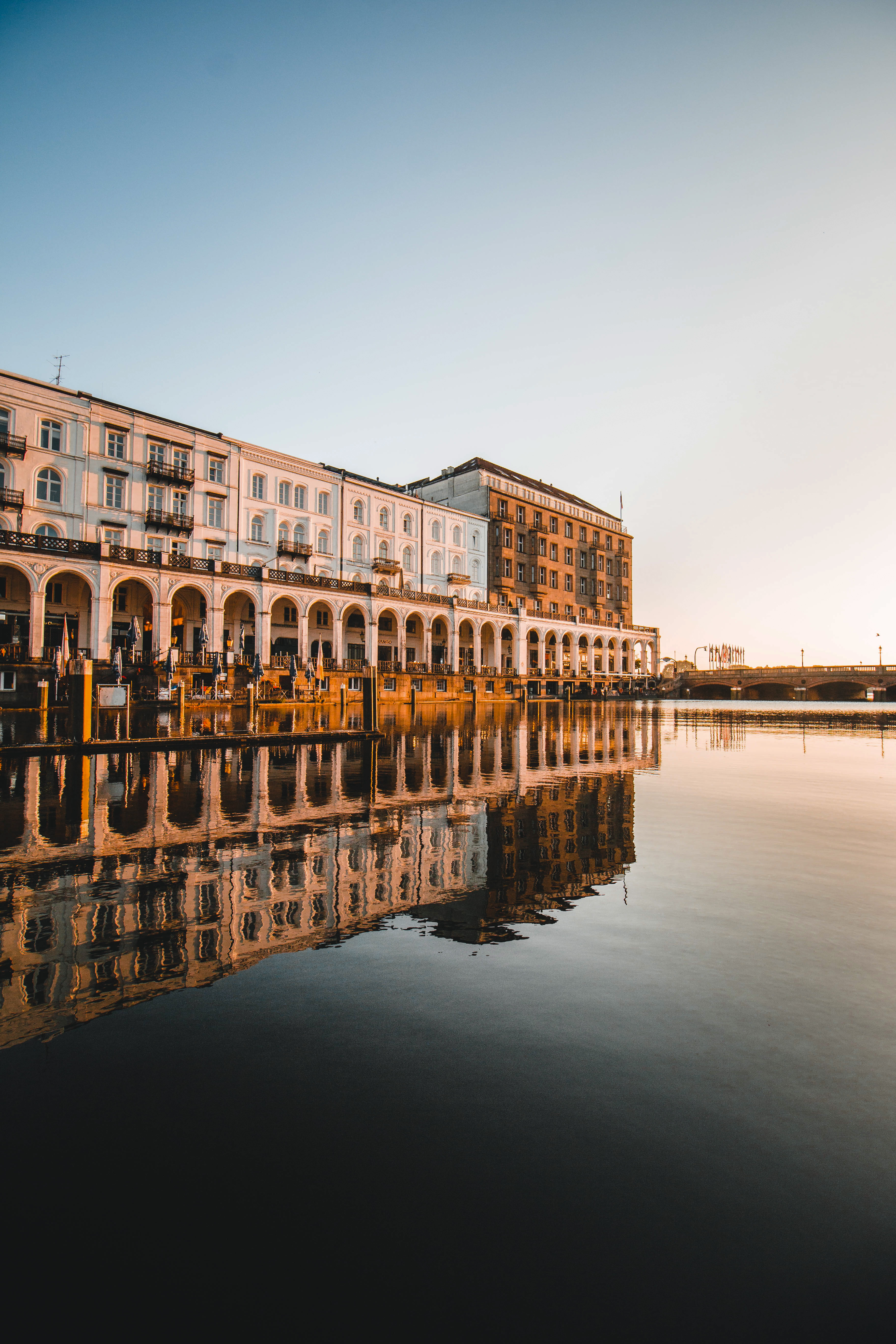 This is a reflection of the Alsterarkaden in Hamburg at sunrise